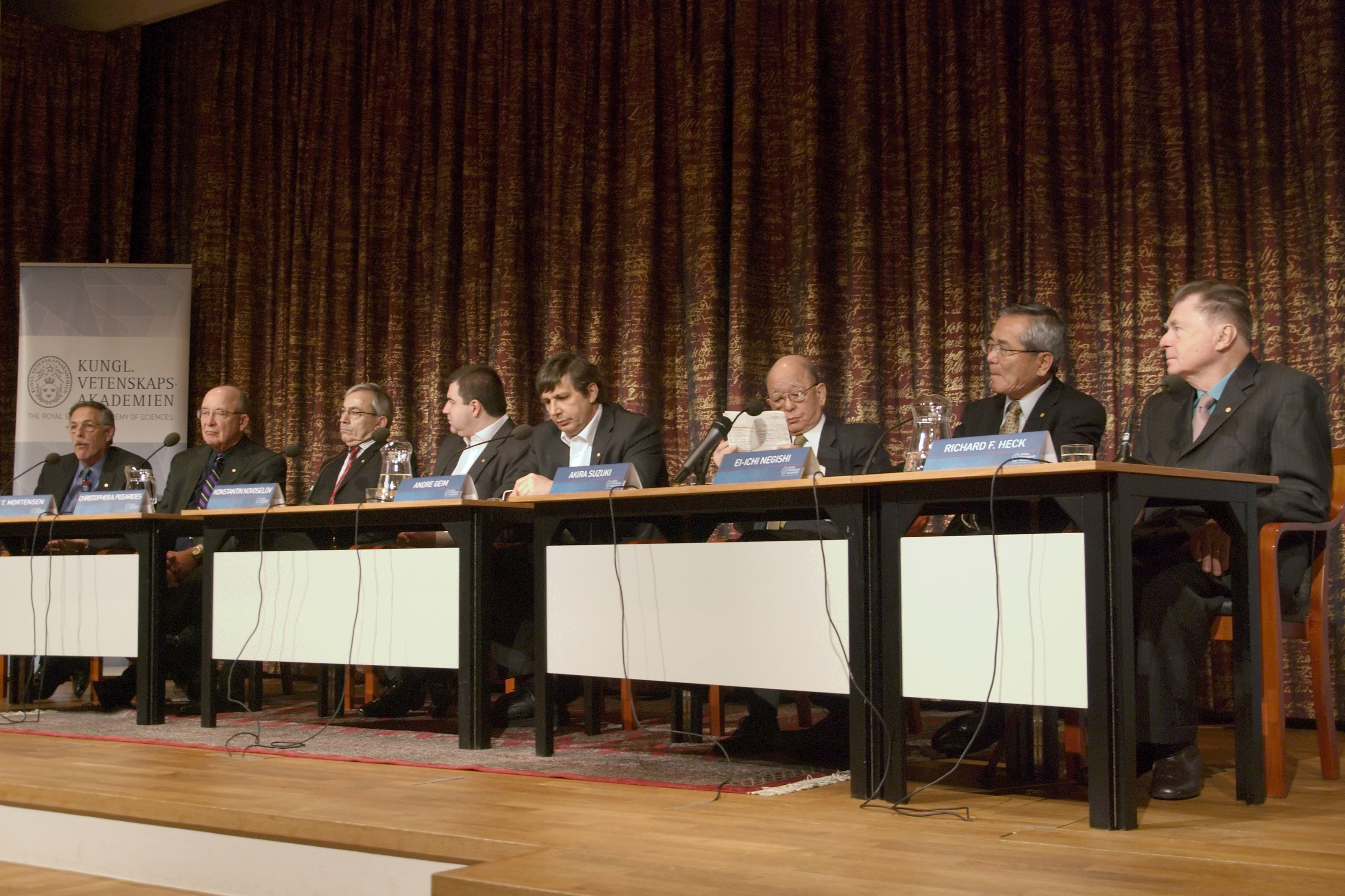 Nobel Prize 2010, press conference with the laureates of the Nobel prizes in chemistry and physics and the memorial prize in economic sciences at the KVA.